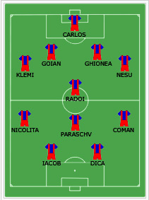 Steaua Bucharest line-up for the 2006-07 season